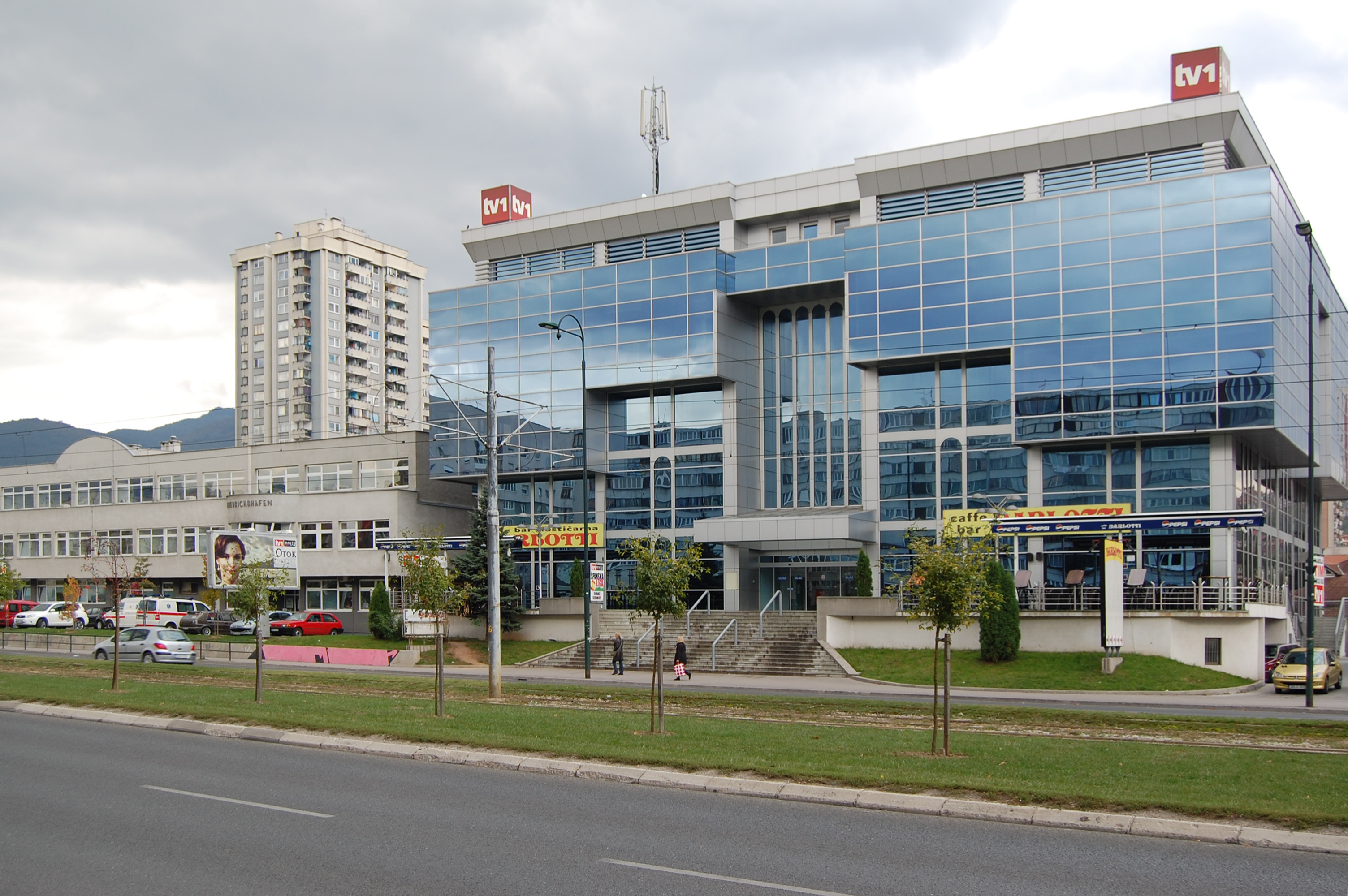 Tram line at Čengić Vila in Sarajevo